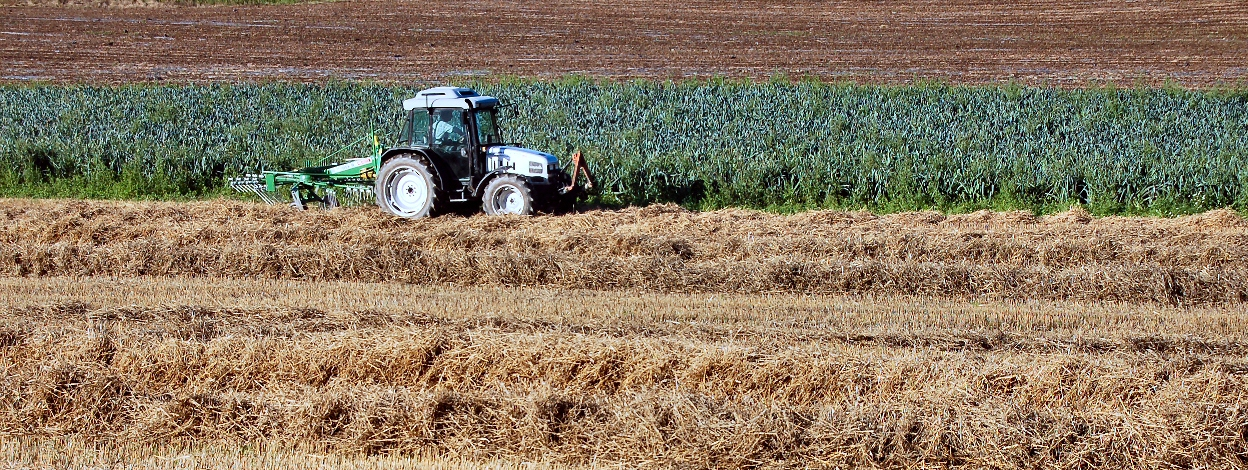 Farming, Lier Drammen, Norway